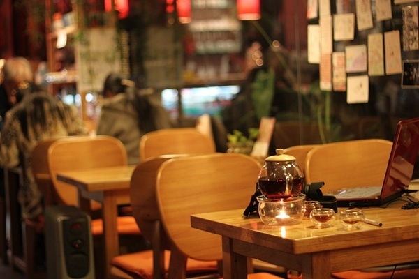 a corner of the cafe